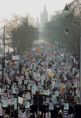 Photograph of a protest against the war in Iraq, taken from Hungerford Bridge, in Embankment London. 15th February 2003.